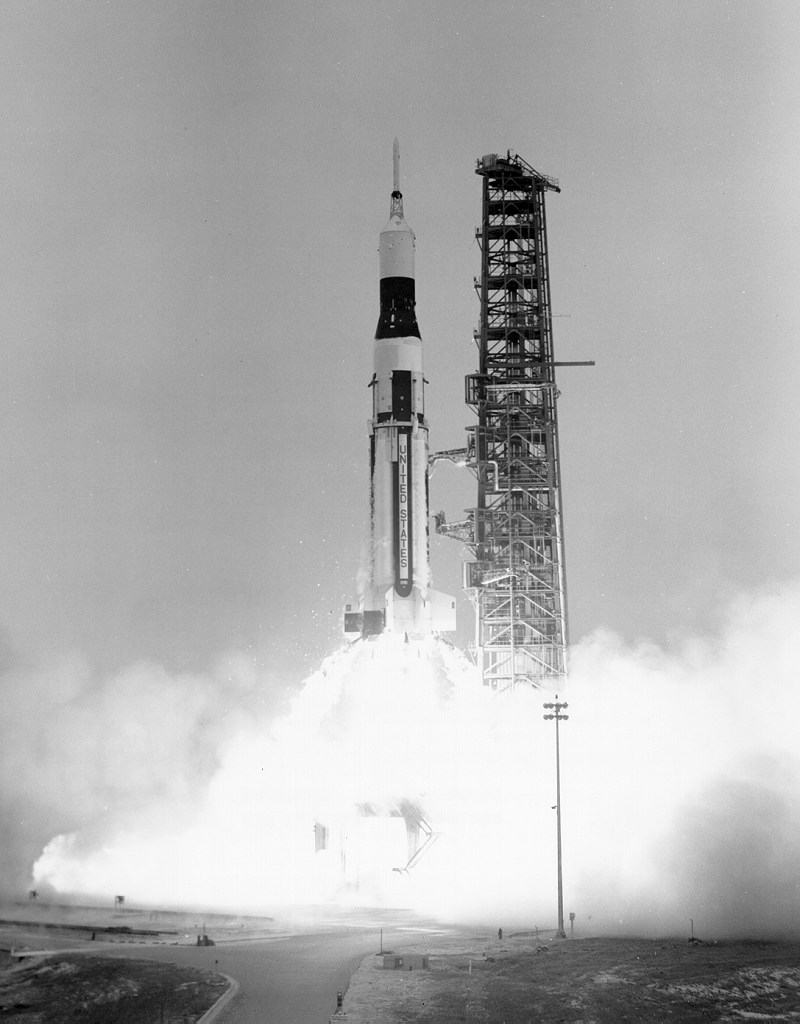 Liftoff of unmanned Saturn I mission SA-6